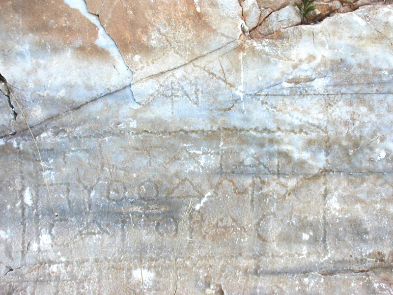 Macedonian (greek) inscription from the Eastern curtain wall of Philippi, above the theater, recording the names of two epistates, possibly under the reign of Philip V.